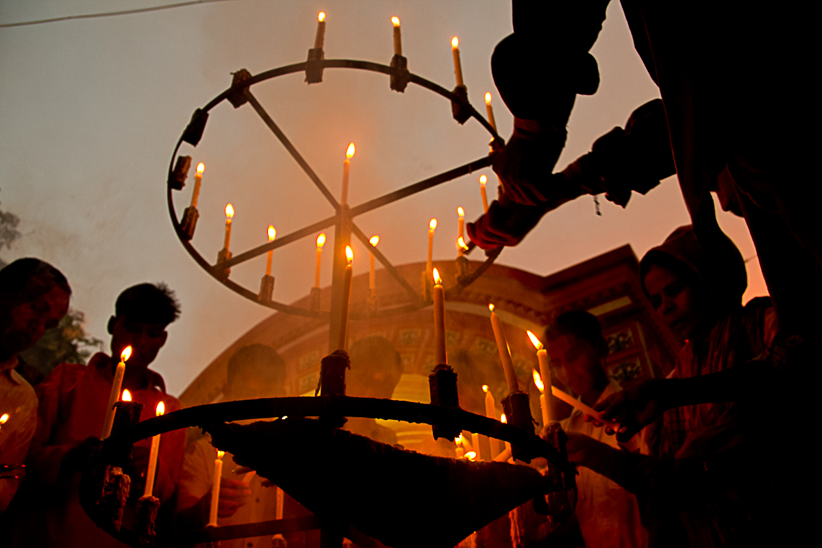 Hindu religious alighting candle and set it in Loknath Temple for success their wishes